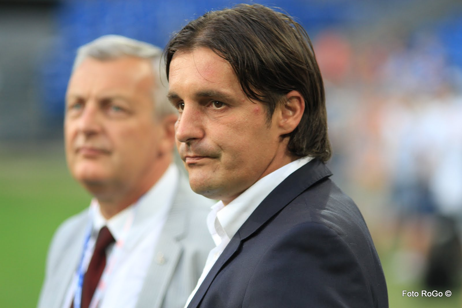 Dženan Uščuplić as a coach of FK Sarajevo in 2015